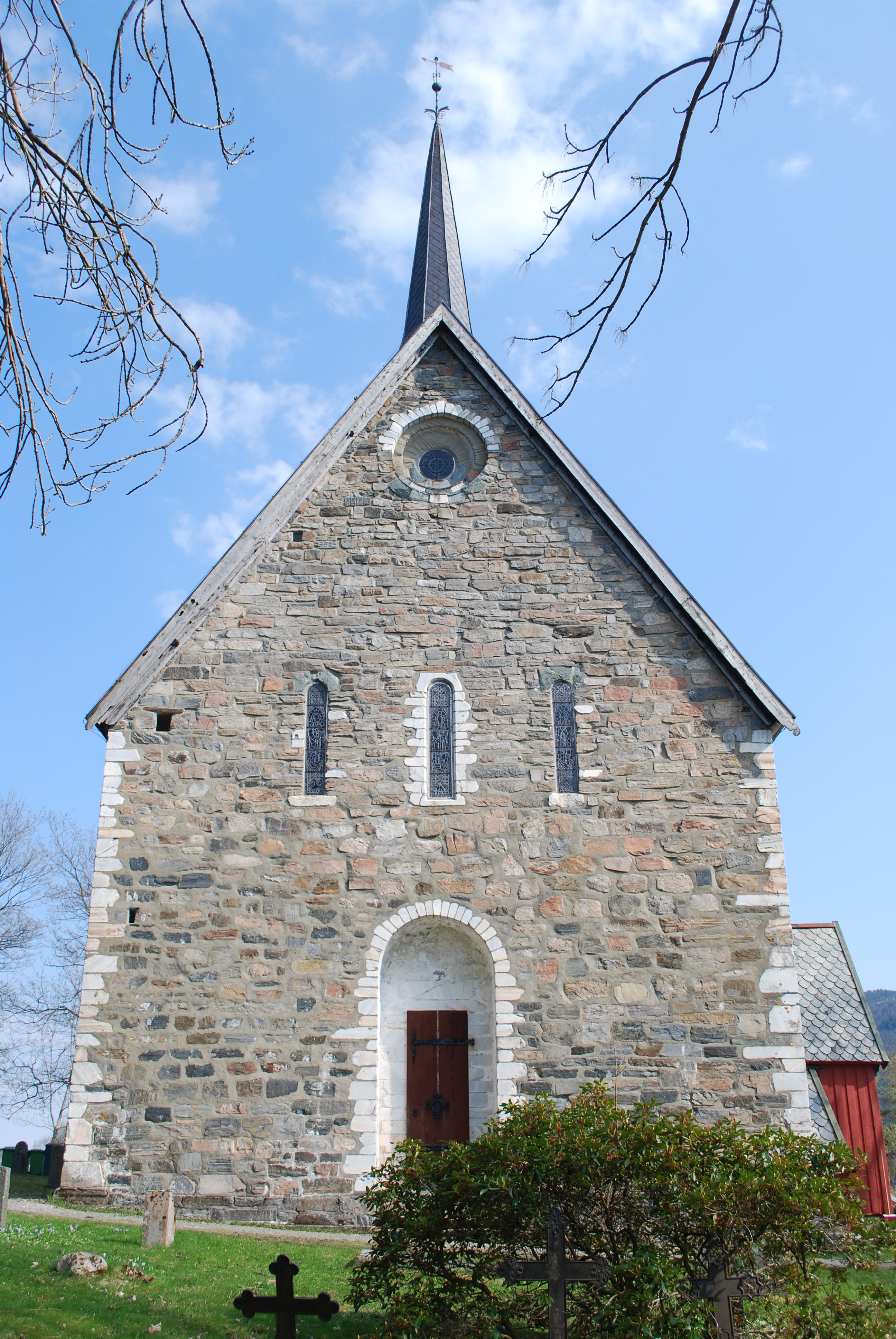 Tingvoll kirke in Tingvoll, Møre og Romsdal, Norway.